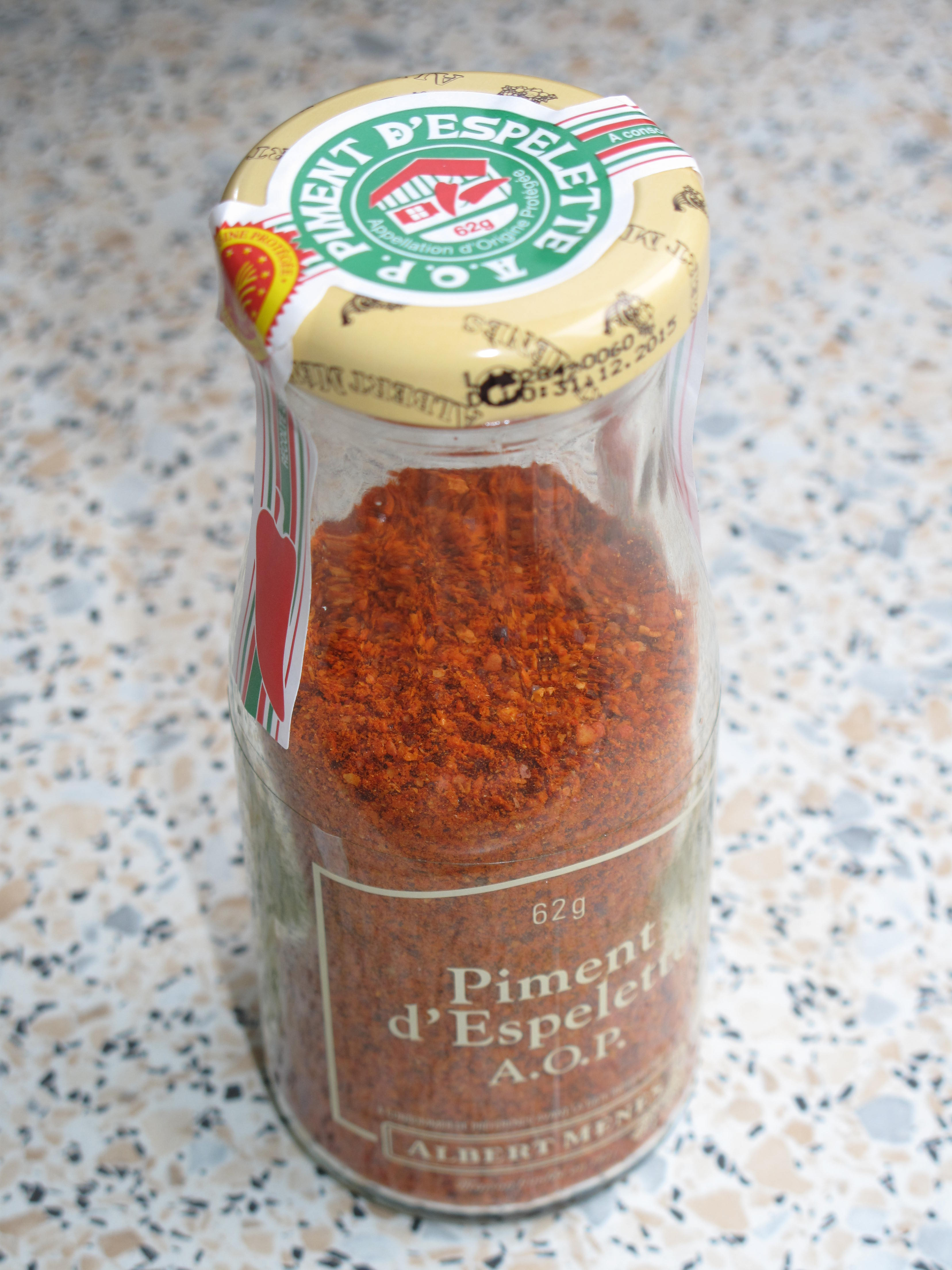 Glass jar containing Espelette pepper (France).